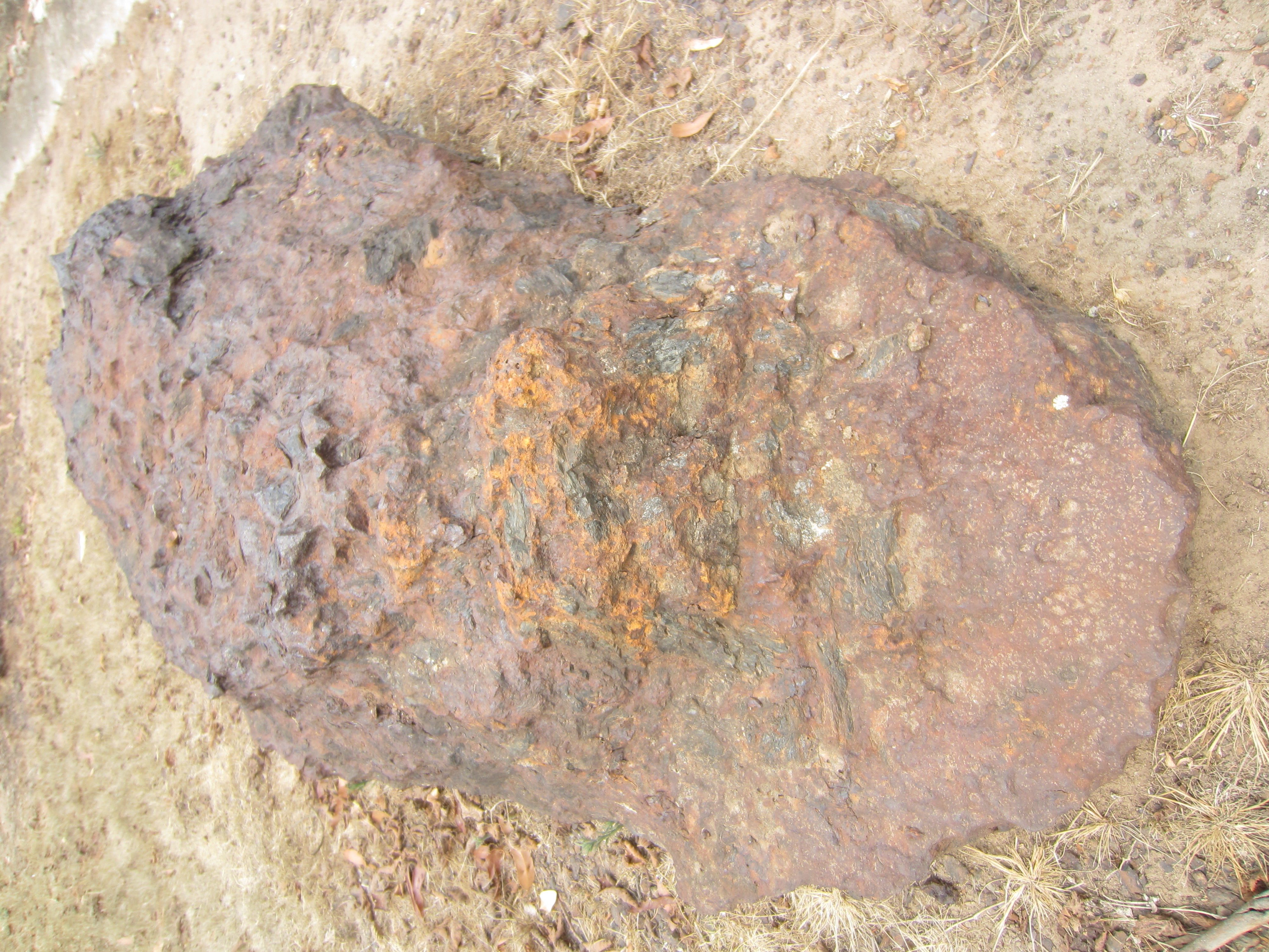 Piece of iron, probably a fragment of a 'bosh skull', at the site of the former blast furnace of the Fitzroy Iron Works. This is one of four at this site. Included within the iron are large pieces of largely unaltered coal. This is almost certainly a result of unsuccessful attempts to smelt iron using local coal